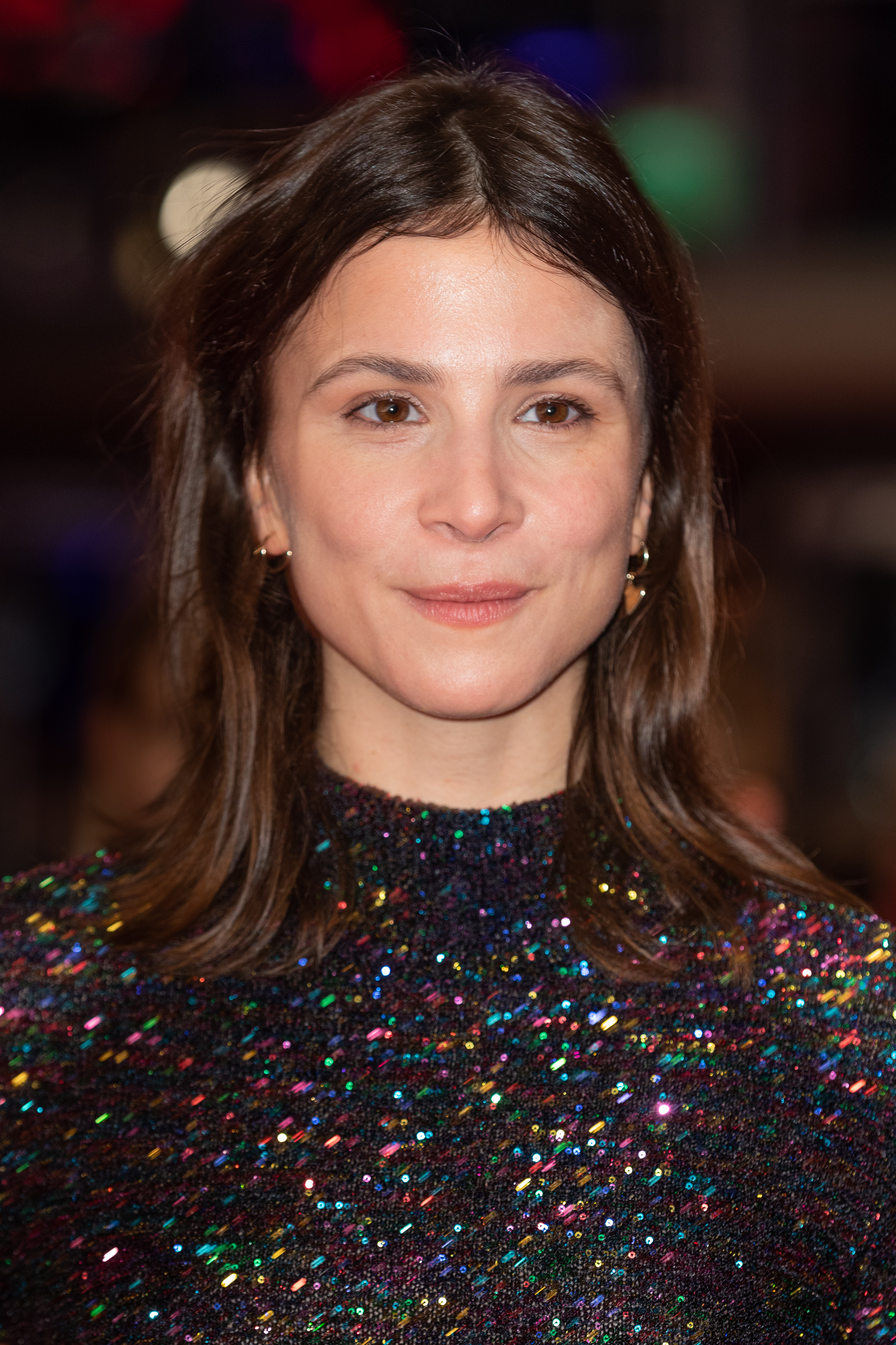 Aylin Tezel at the Berlinale 2020